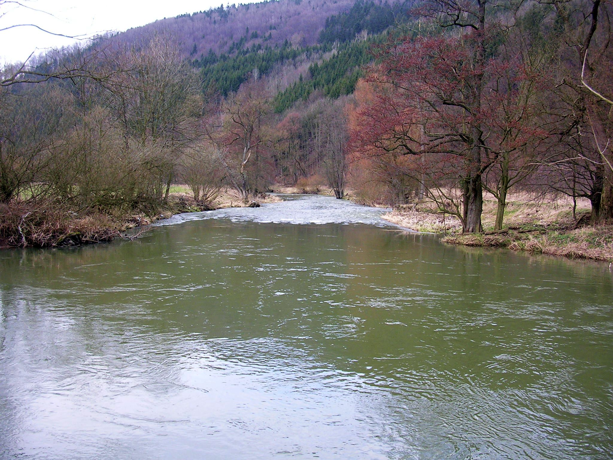 Tichá Orlice River, Bezpráví, Orlické Podhůří, the Czech Republic.